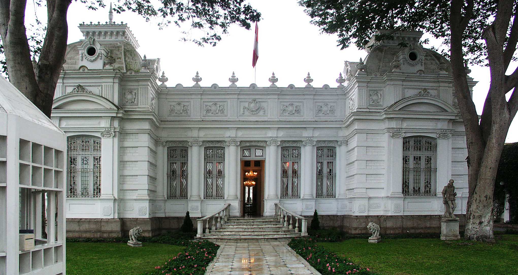 Museo Pedro de Osma in the Barranco District. Lima, Peru.